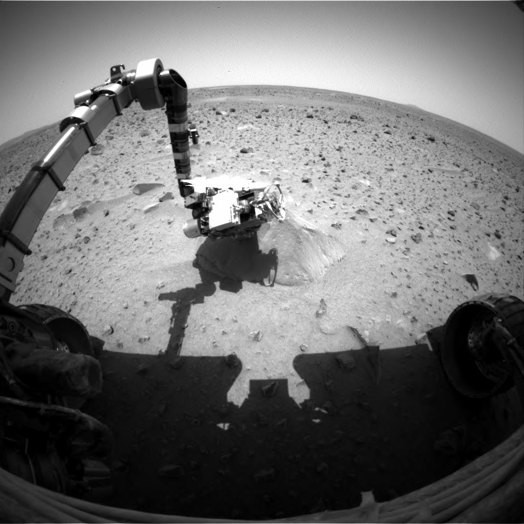 Left Front Hazard Camera Non-linearized Full frame EDR acquired on Sol 30 of Spirit's mission to Gusev Crater at approximately 12:05:30 Mars local solar time.